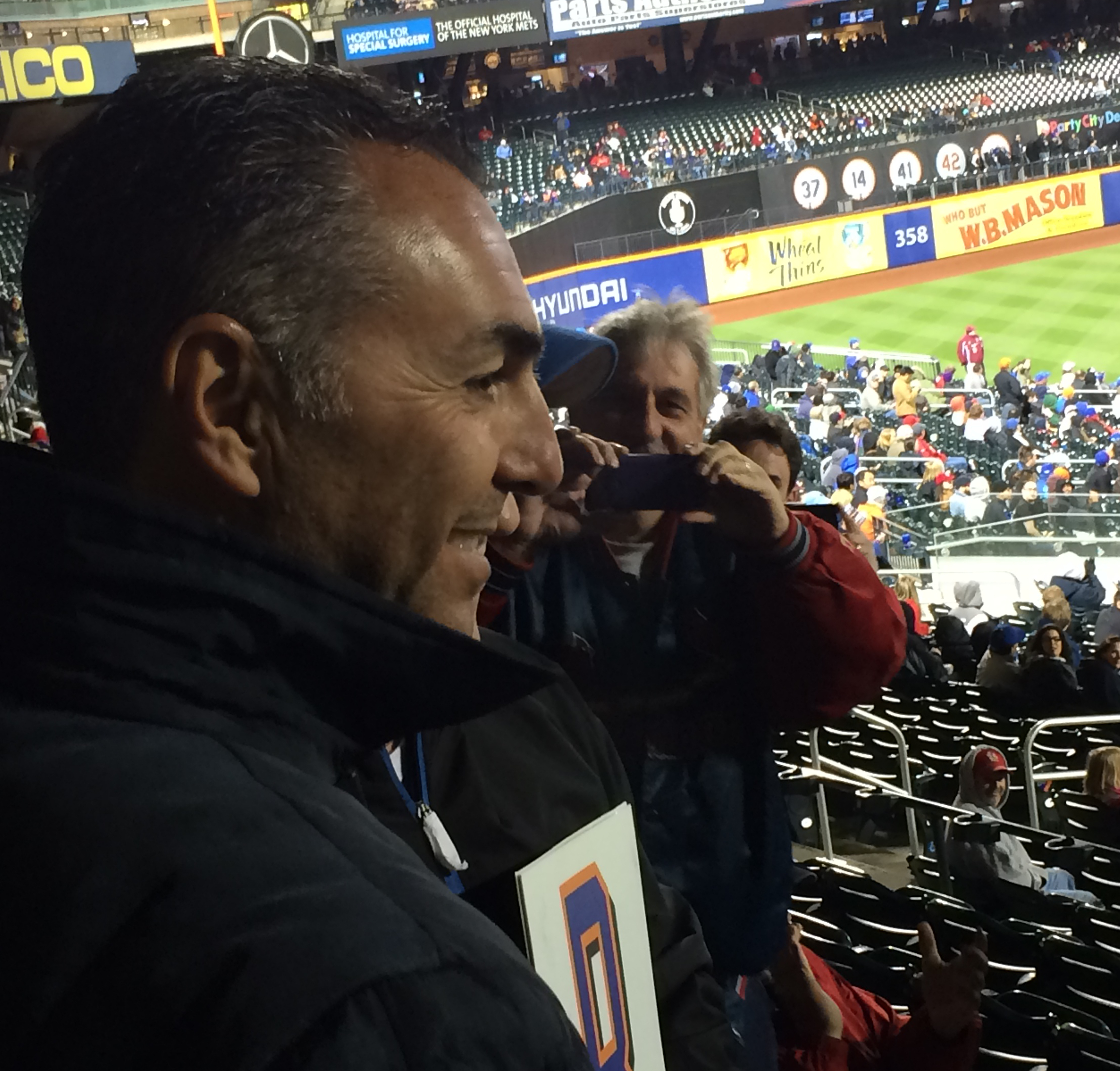 Taken at Citi Field 4-23-14 when Franco presented a prize to a fan.